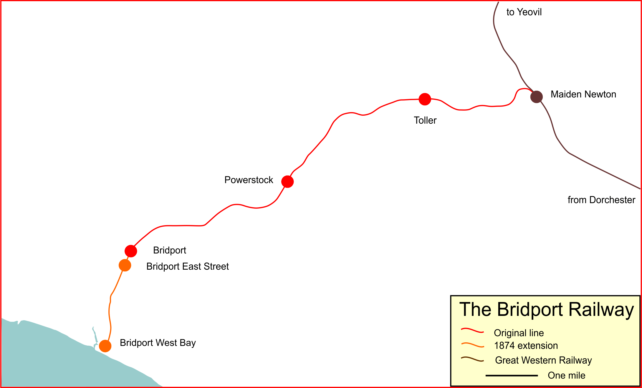 Map of the Bridport Railway, England